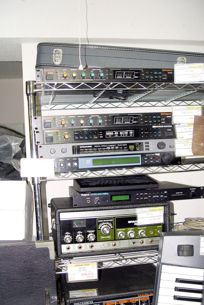 Digital rack delays (plus one space echo tape delay), mostly roland, seen at Echigoya music in Shibuya. Roland SDE-2500 (×2) Roland SDE-3000A Dynacord DLS 223 Digital Organ Cabinet — Digital Leslie Simulator, digital incarnation of Dynacord CLS 222 Leslie Simulator Sony D7 Roland D-110 & PG-10 — digital synthesizer module & programmer Roland RE-101 Space Echo Roland Chorus Echo References Dynacord DLS 223 Nick Magnus. "Dynacord DLS 223 - Digital Organ Cabinet". Sound On Sound (April 1994). "... digital incarnation of Dynacord's popular CLS 222 Leslie Simulator." (15 September 1993) EV Dynacord User Manual - DLS 223 Digital Organ Cabinet (PDF), Electro-Voice, a MARK IV company Thomas Adamson (2002). Review: Dynacord CLS222 and DLS300. "A review of two acclaimed rotary speaker simulators of the early and mid 90's."